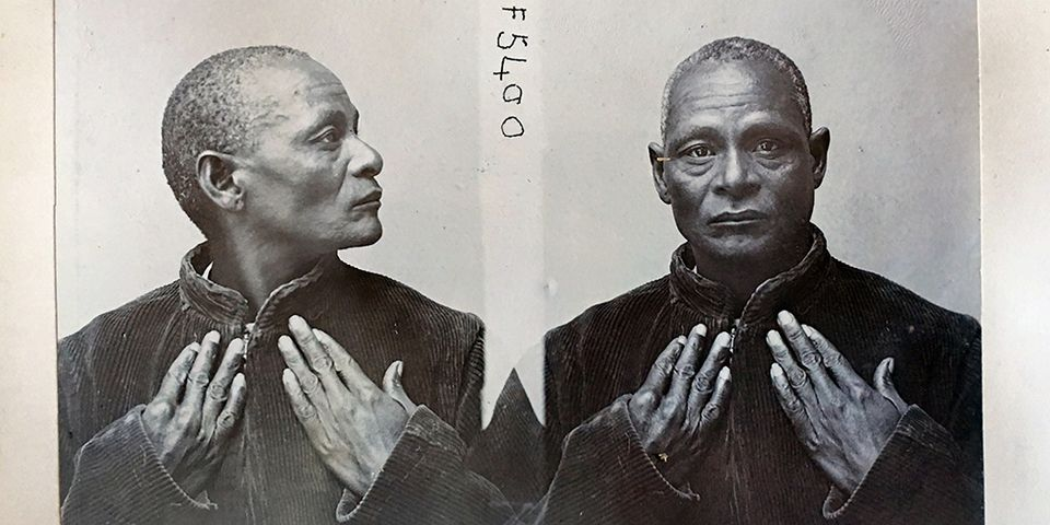 Photographs of Kgosi Galeshewe. KAB CO 6981, Convict Album Vol. IV, 1898